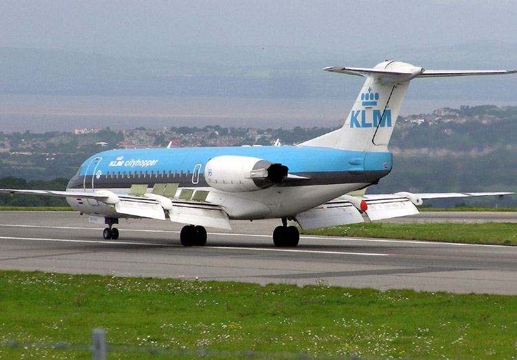 KLM Fokker 70 (PH-KZE) taxiing after landing at Bristol Airport, Bristol, England. Taken by Adrian Pingstone in August 2004 and released to the public domain.